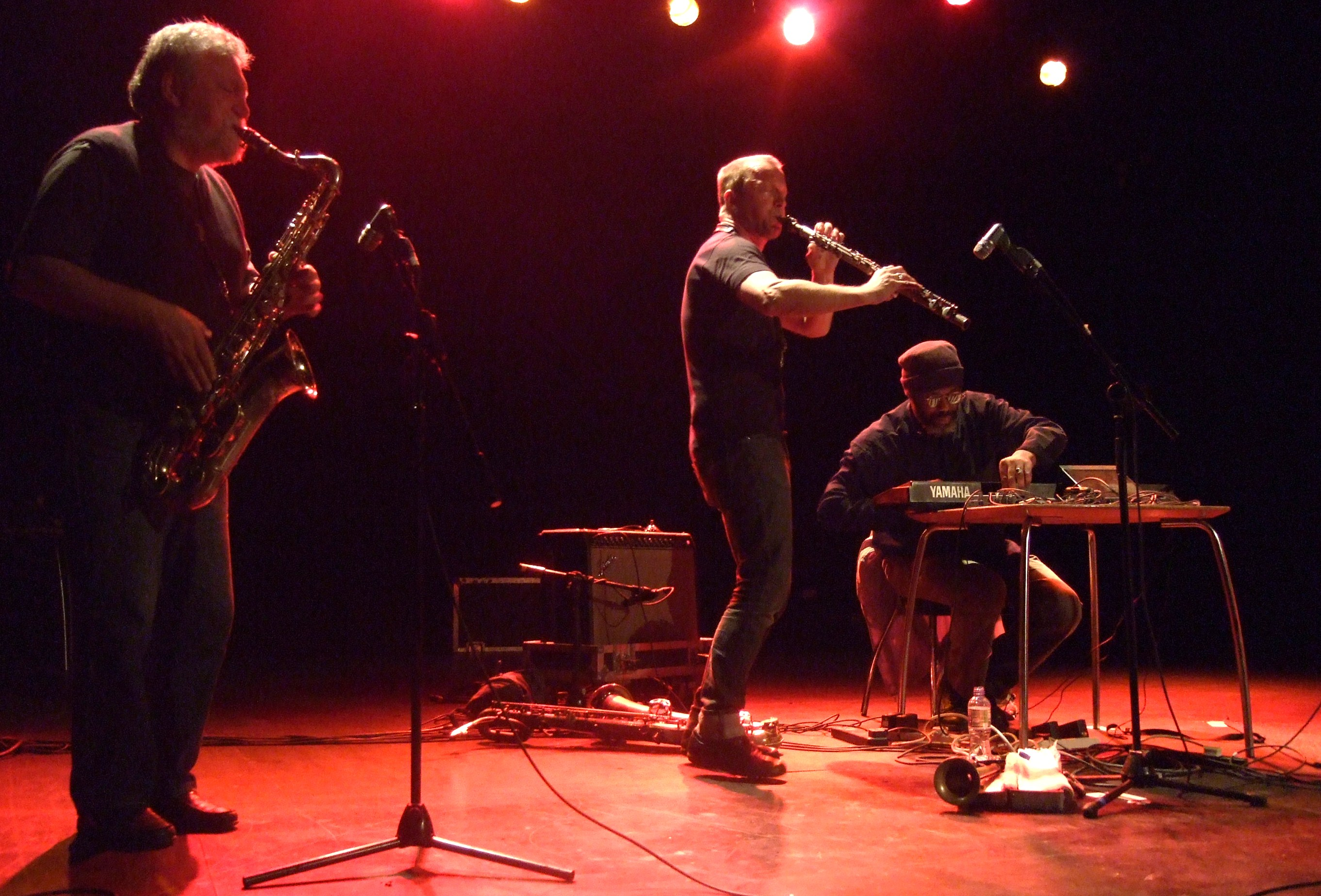 Evan Parker Mats Gustafsson Pat Thomas Roger Turner